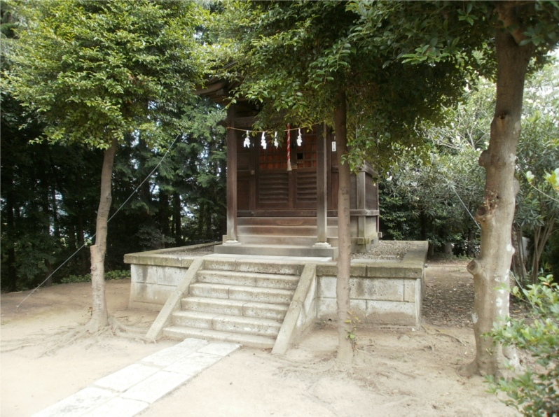 A Konpira san in SakuraOka, Tama City ,Japan